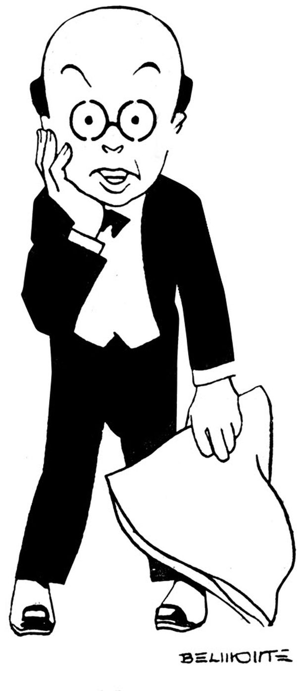 Character Juca Pato, created by Brazilian cartoonist Belmonte (1896 – 1947).